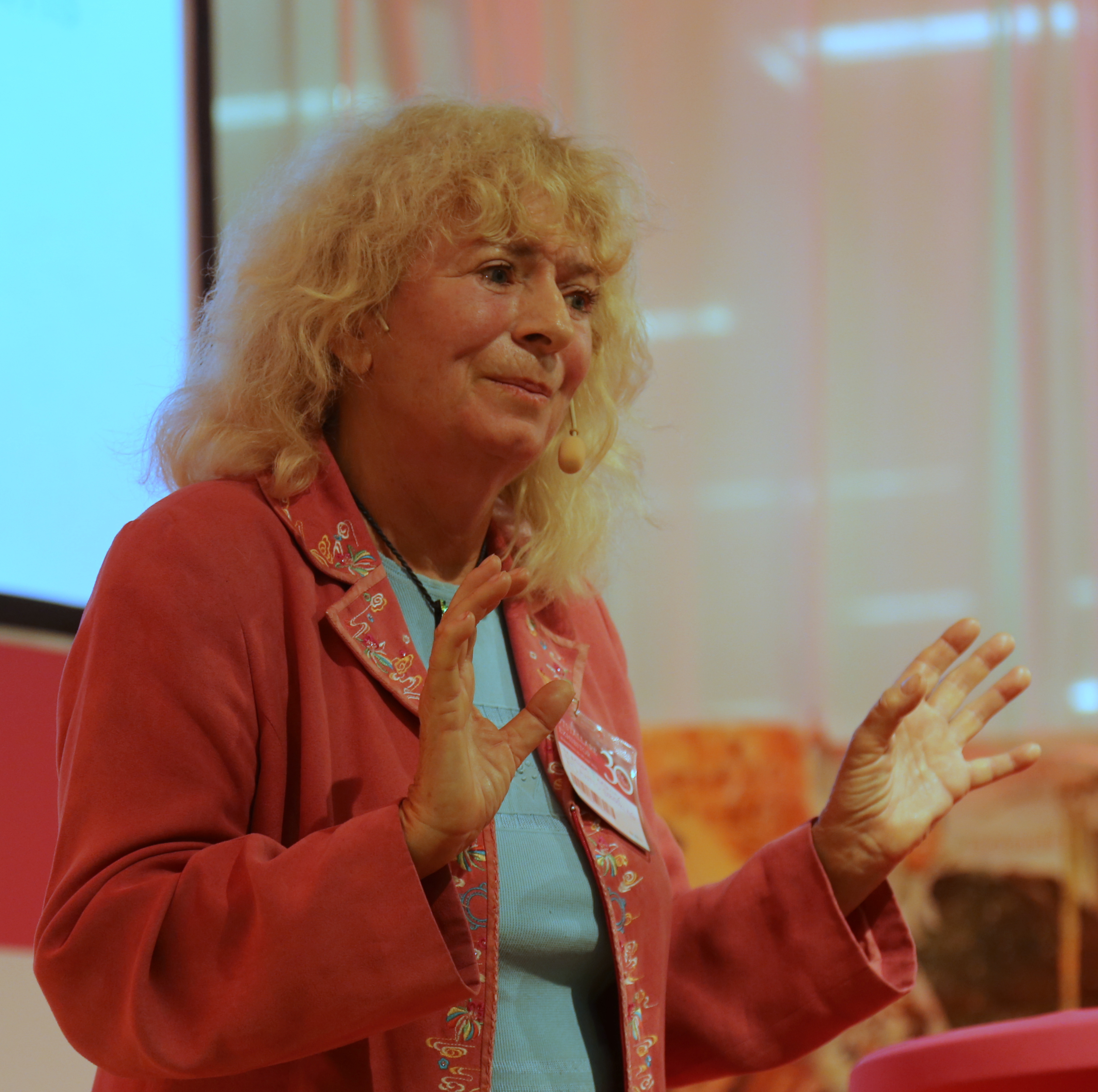 Marina Thorborg Larsson at the Gothenburg book fair 2014.